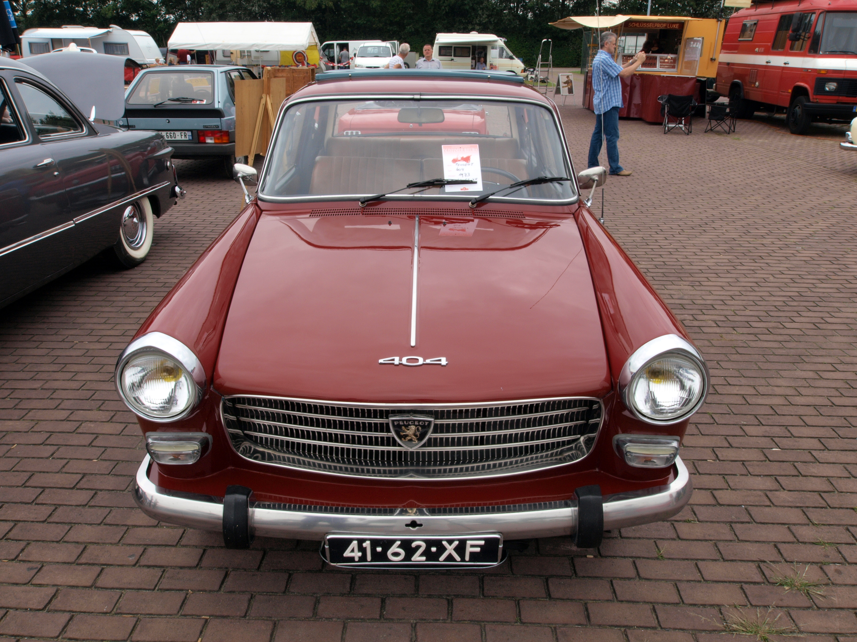 Photographed at the 2010 Autotron Classic car meeting, Rosmalen, The Netherlands. OLYMPUS DIGITAL CAMERA